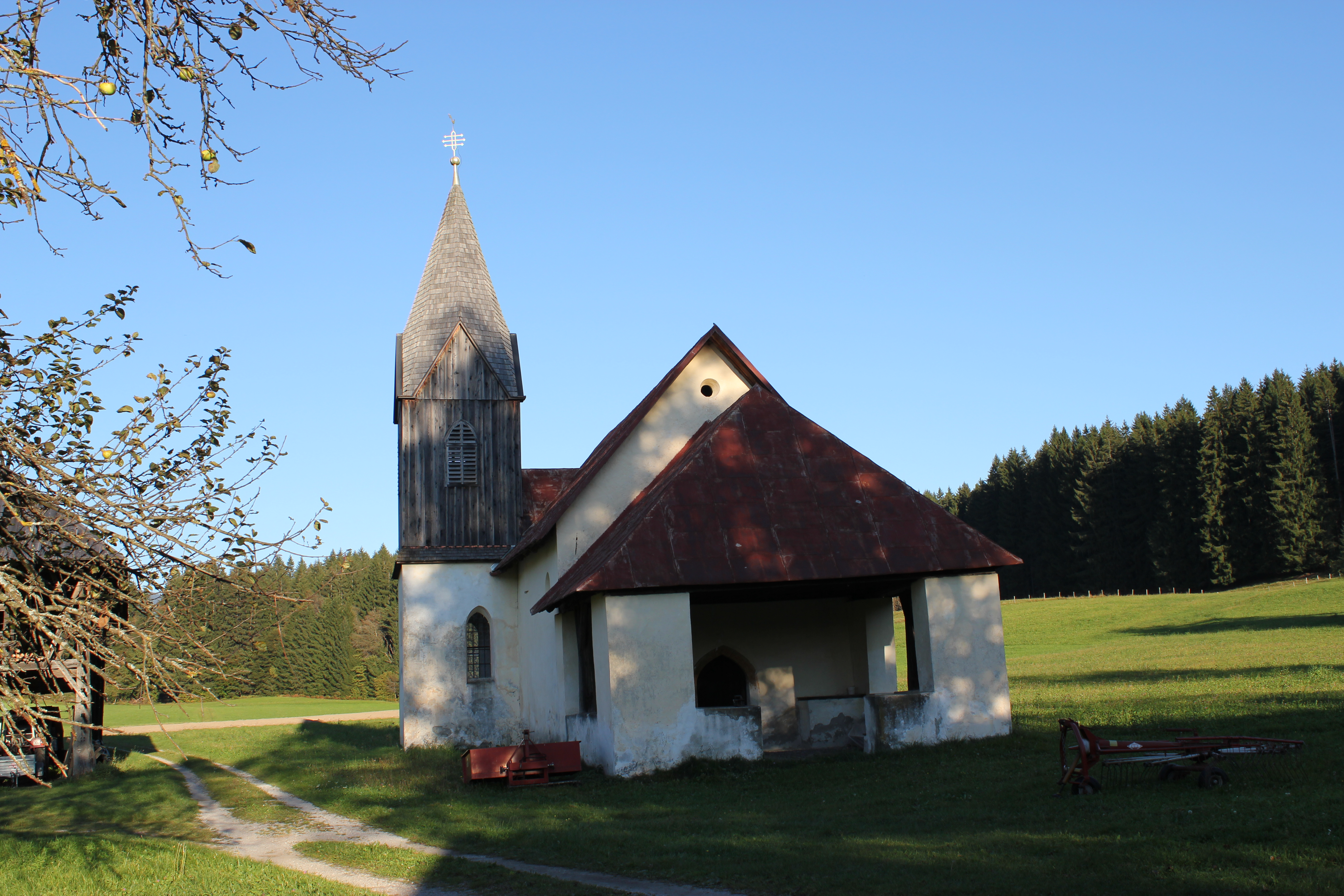 Church of Götzing in the community of Hermagor